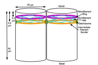 The cell state splitter is an organelle predicted and then first observed at the apical end of ectoderm cells in axolotl embryos at early gastrulation. It consists of an upper microfilament ring with an intermediate filament ring below it, subtended by a mat of microtubules. (Note not to scale: the vertical and horizontal scales are compressed, as 50 μm = 100 x 0.5 μm. The cell state splitter occupies only the top 1% of the height of an ectoderm cell.)